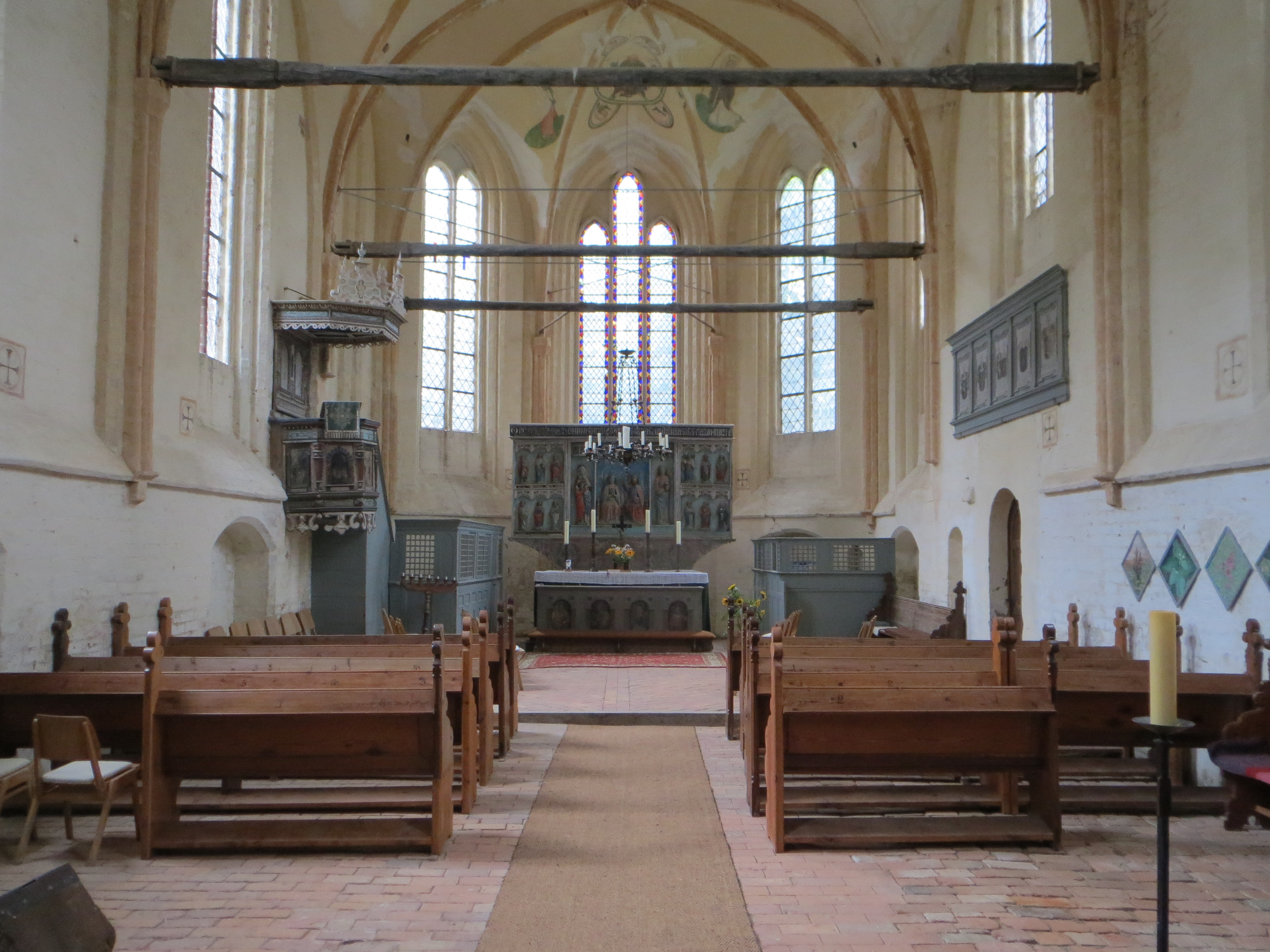 Kirche Zurow